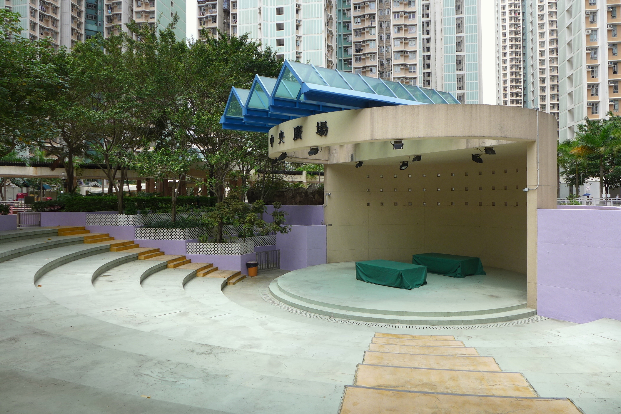 Tin Shing Court Amphitheater